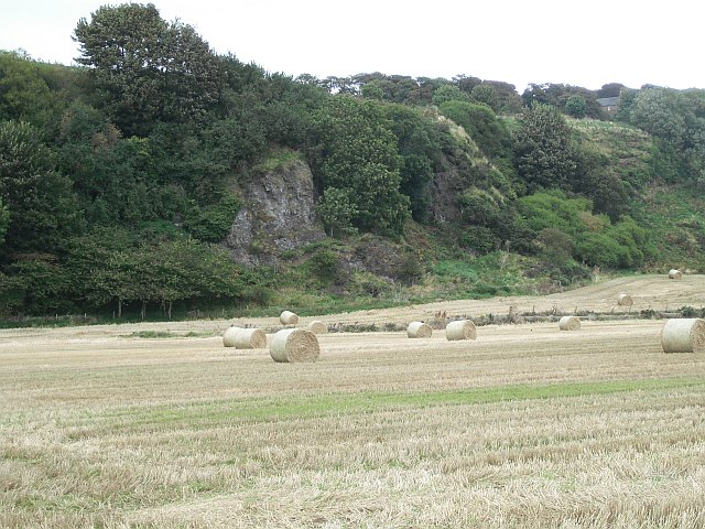 Former sea cliffs, Warburton A sudden drop to a low coastal plain. A glance of the map suggests that the North Esk estuary filled up behind a sand bar, perhaps aided by a falling relative sea level thanks to isostatic rebound, as the crust rose free of its ice burden.